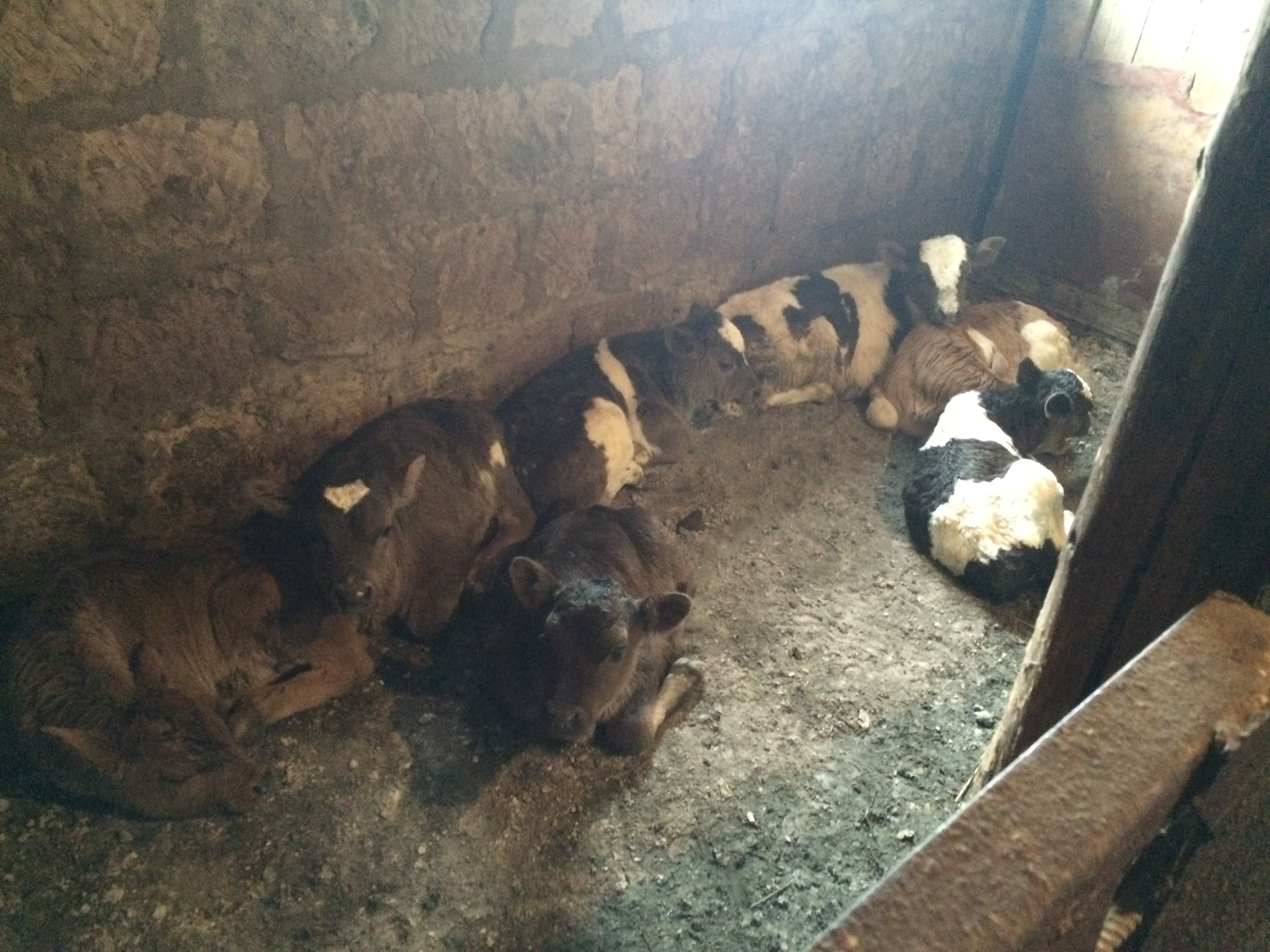 Calves resting inside a Barn in Maralik, Armenia.